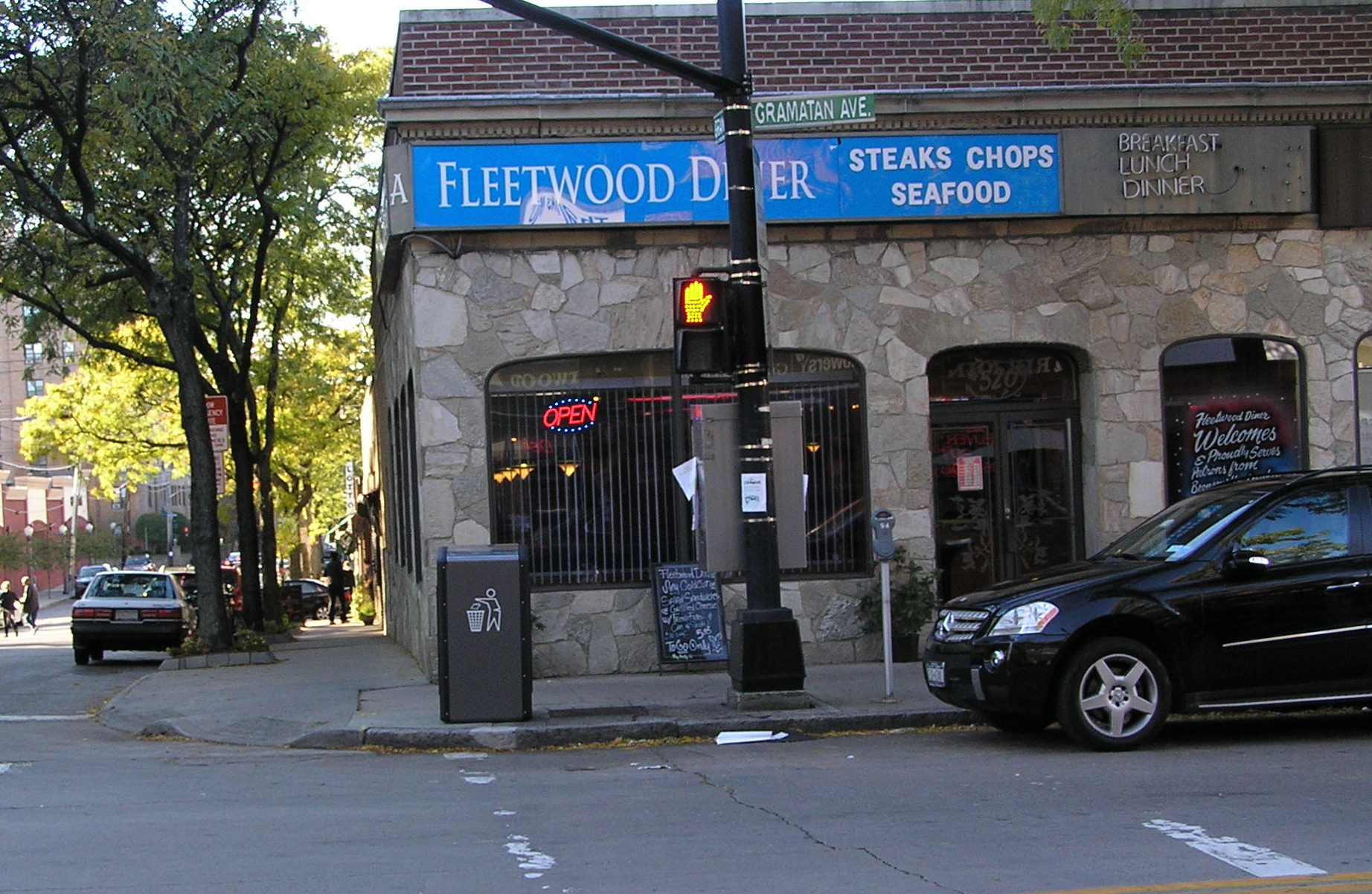 This is the photograph of the intersection of Gramatan and Grand Street in the Fleetwood neighborhood of Mount Vernon, NY